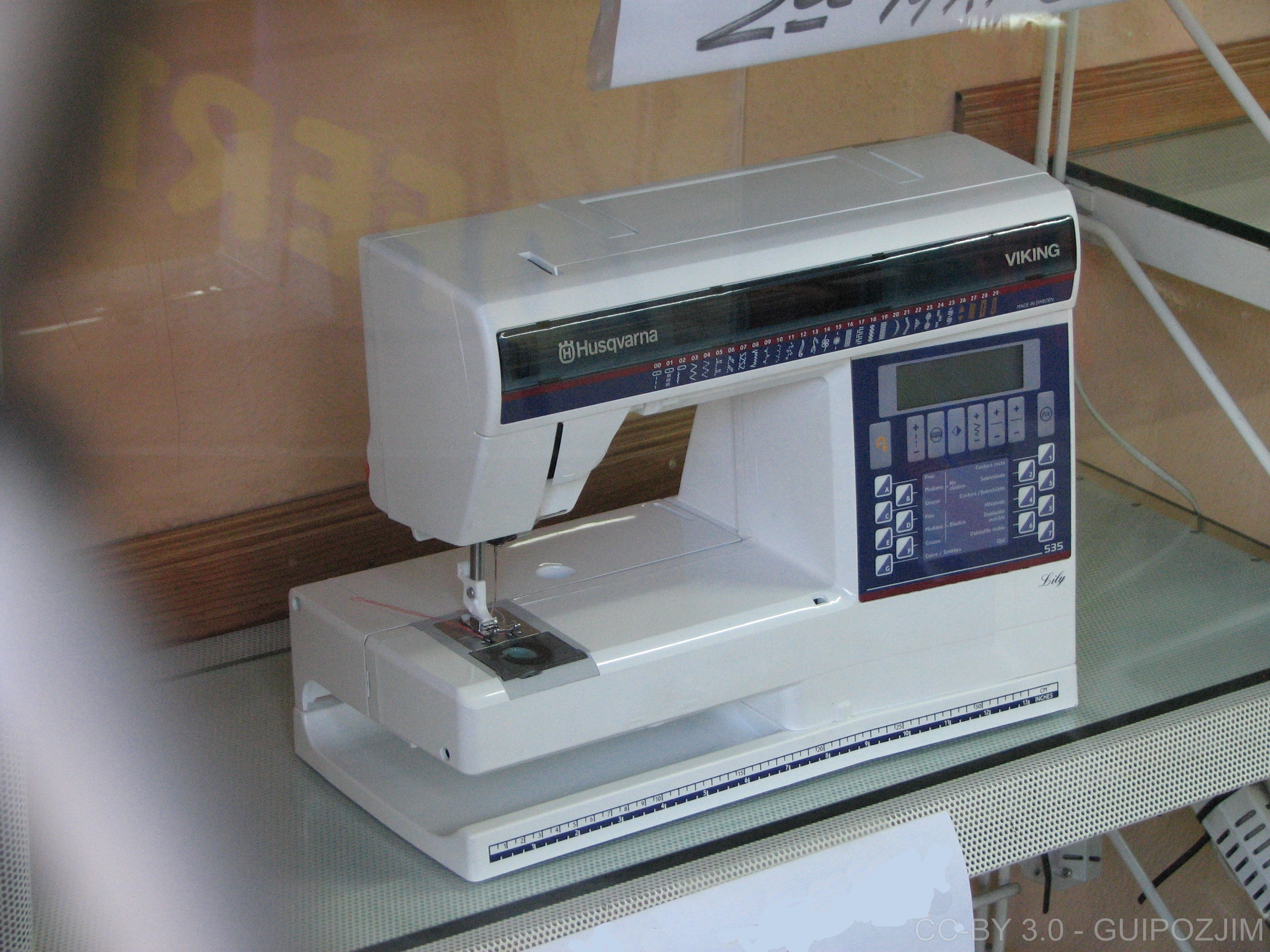 Sewing machine Husqvarna mark Viking model.